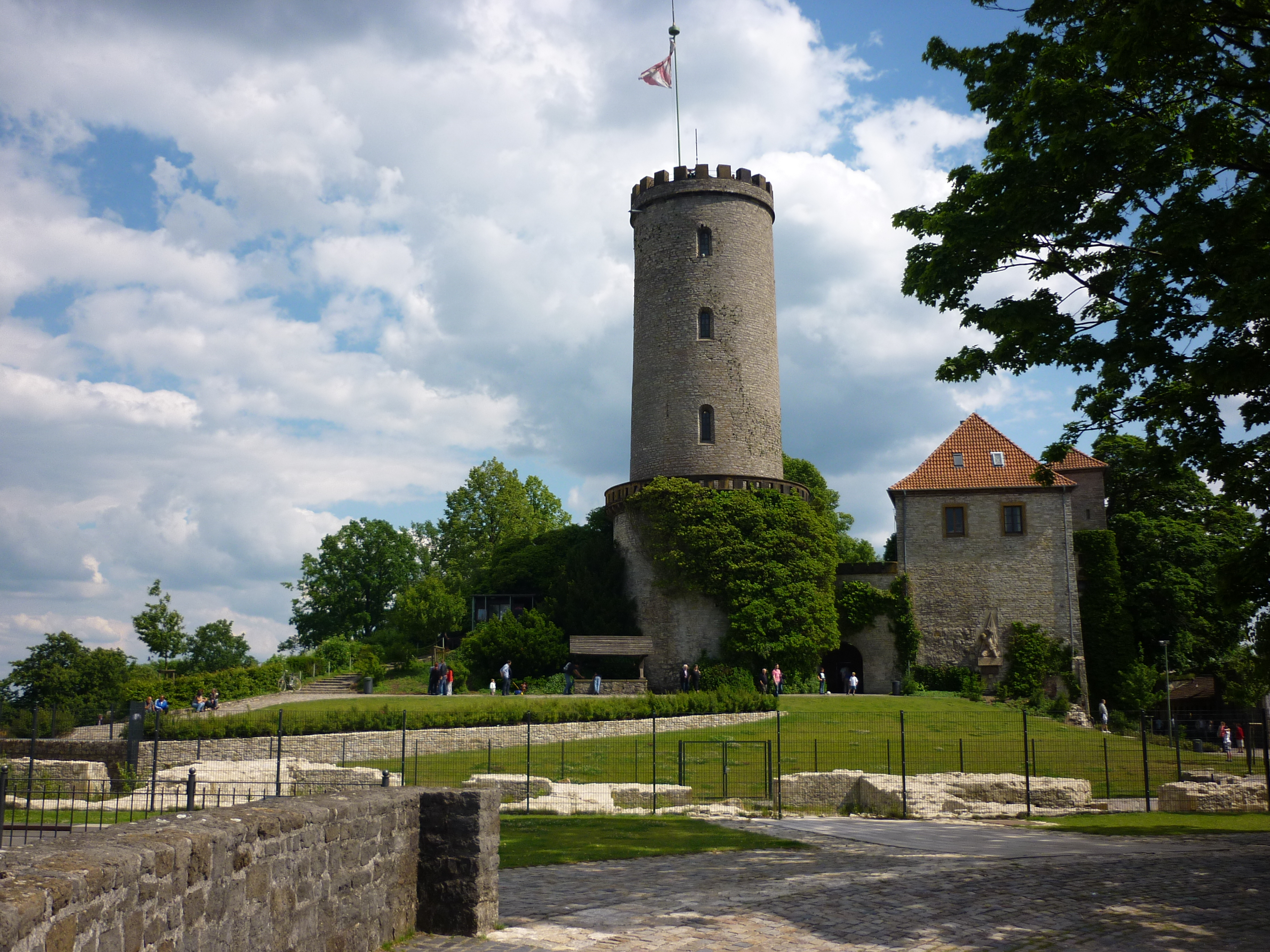 Bielefeld (Germany). Sparrenberg Castle (commonly named “Sparrenburg”).